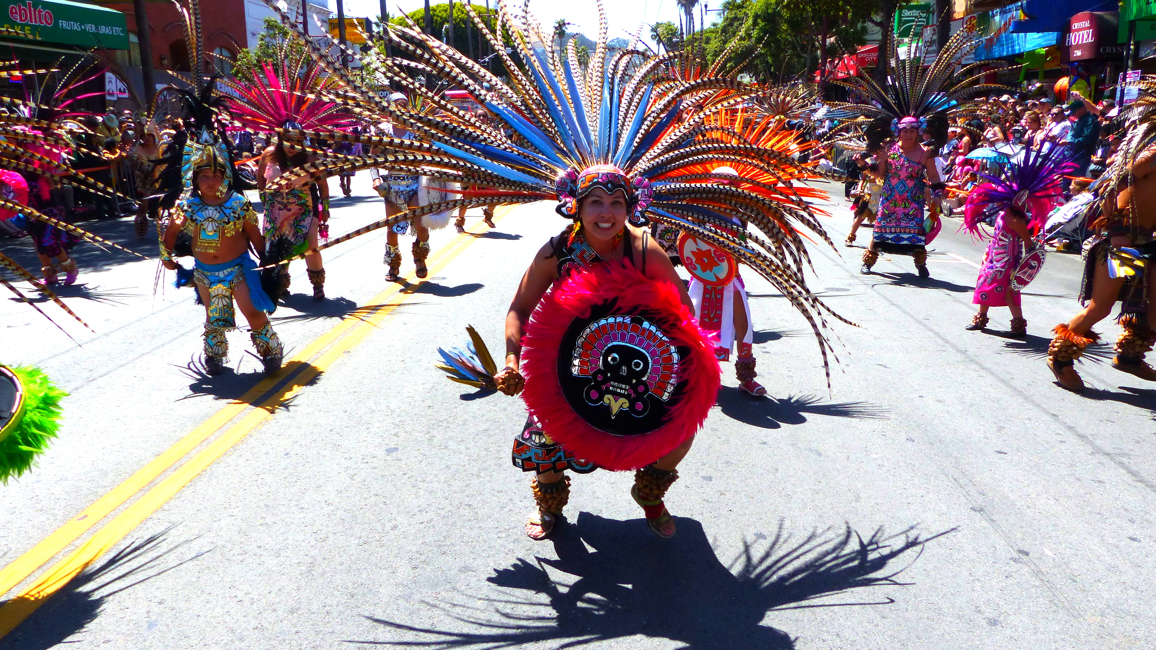 San Francisco Carnaval 2014 Parade -Ollin Anahuac Traditional Aztec Dance Group282